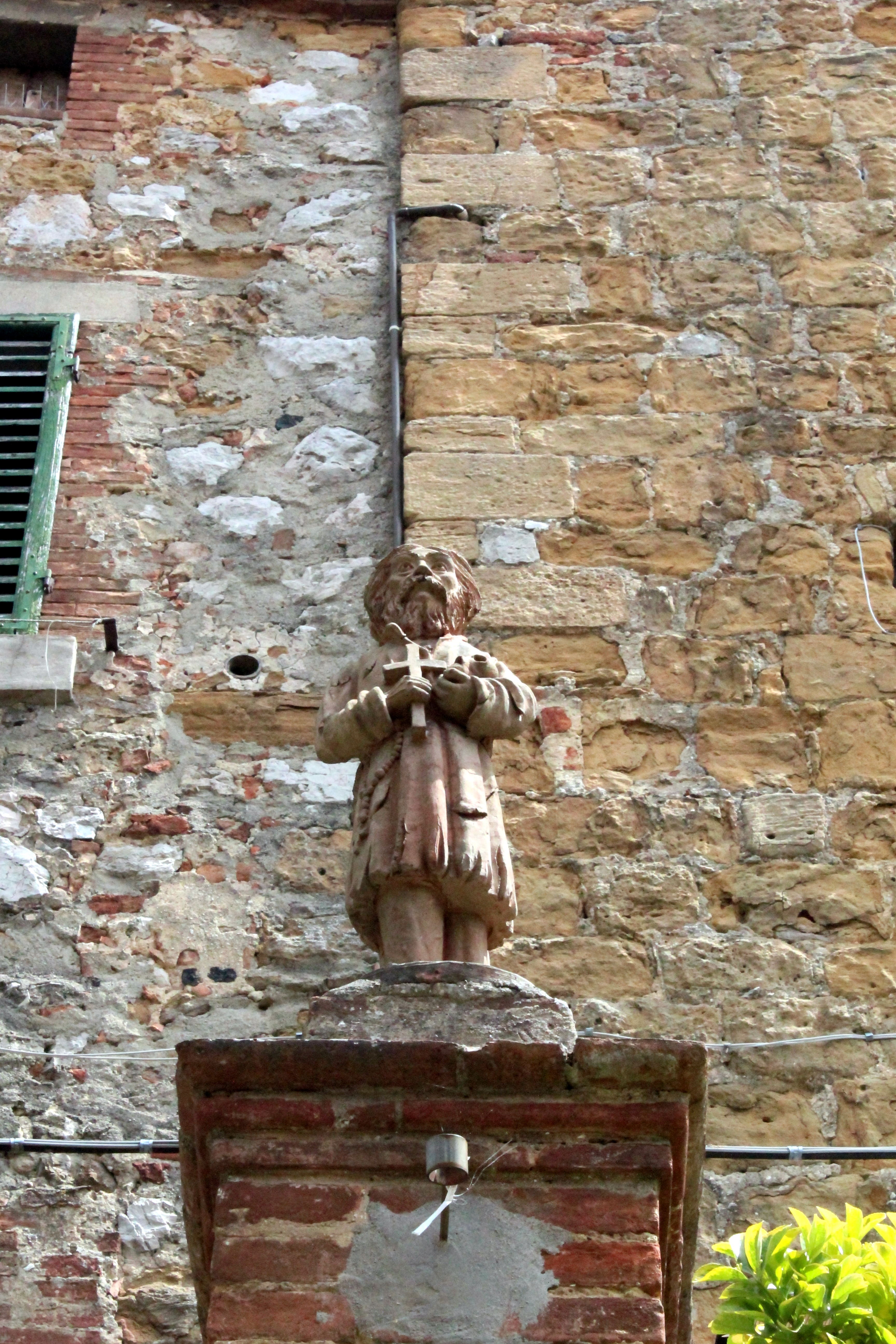 The terracotta statue of Brandano da Petroio in front of the Torre del Cassero, center of Petroio, hamlet of Trequanda, Province of Siena, Tuscany, Italy